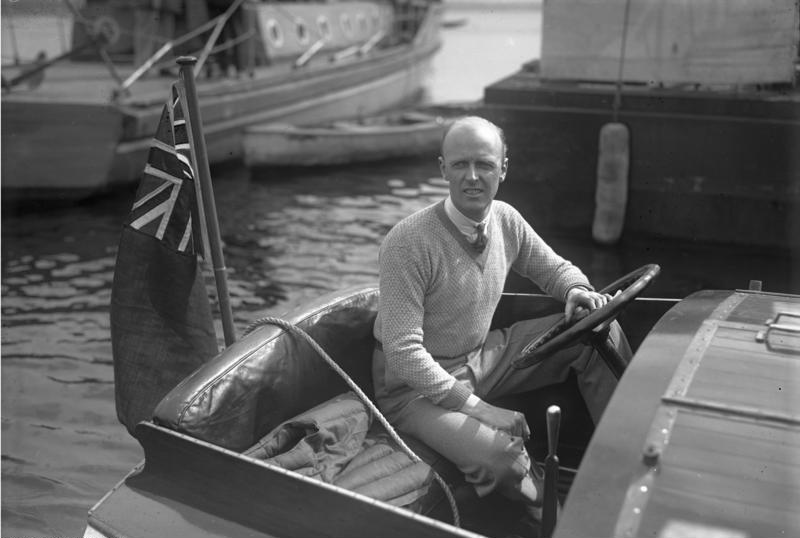 Henry Segrave on Miss Alacrity at Templiner See in Germany. Original caption: "Bundesarchiv, Bild 102-09943Foto: o.Ang. I Juni 1930" — removed caption Factual corrections and alternative descriptions are encouraged separately from the original description. Additionally errors can be reported at this page to inform the Bundesarchiv. Original historic description: Weltrecordfahrer Major Sir Henry Segrave tödlich verunglückt! Major Sir Henry Segrave, der berühmte Weltrecordfahrer am Steuer seines Motorbootes, mit welchem er in England tödlich verunglückte.